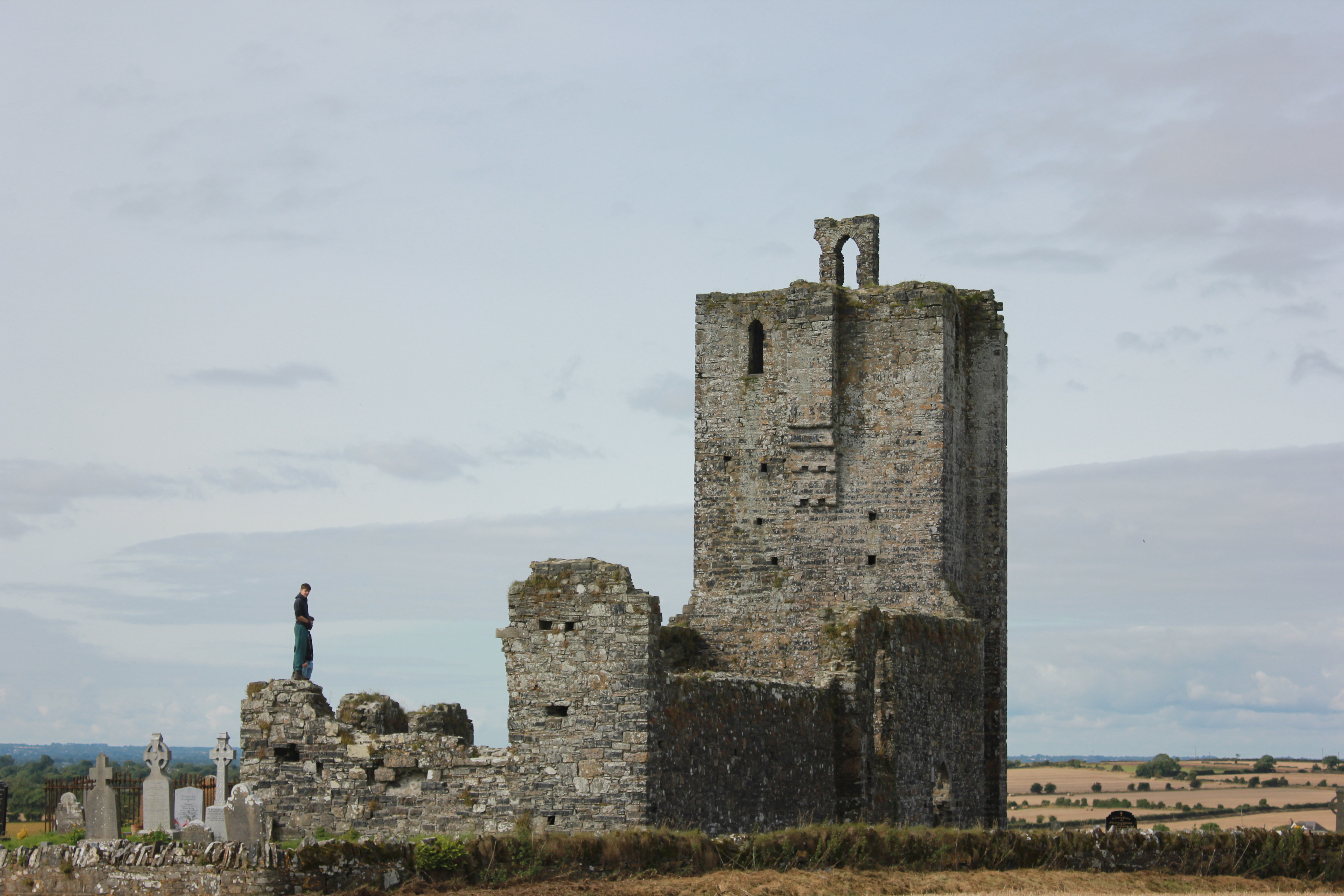 Baldongan Church Tower